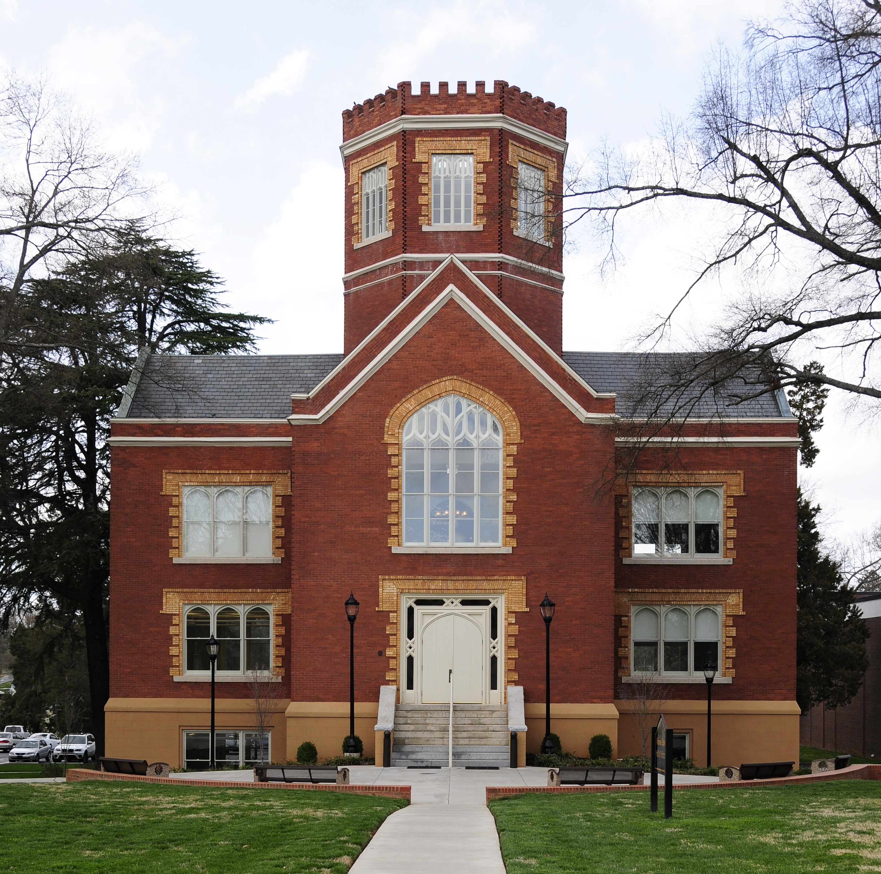 Winnie Davis Hall